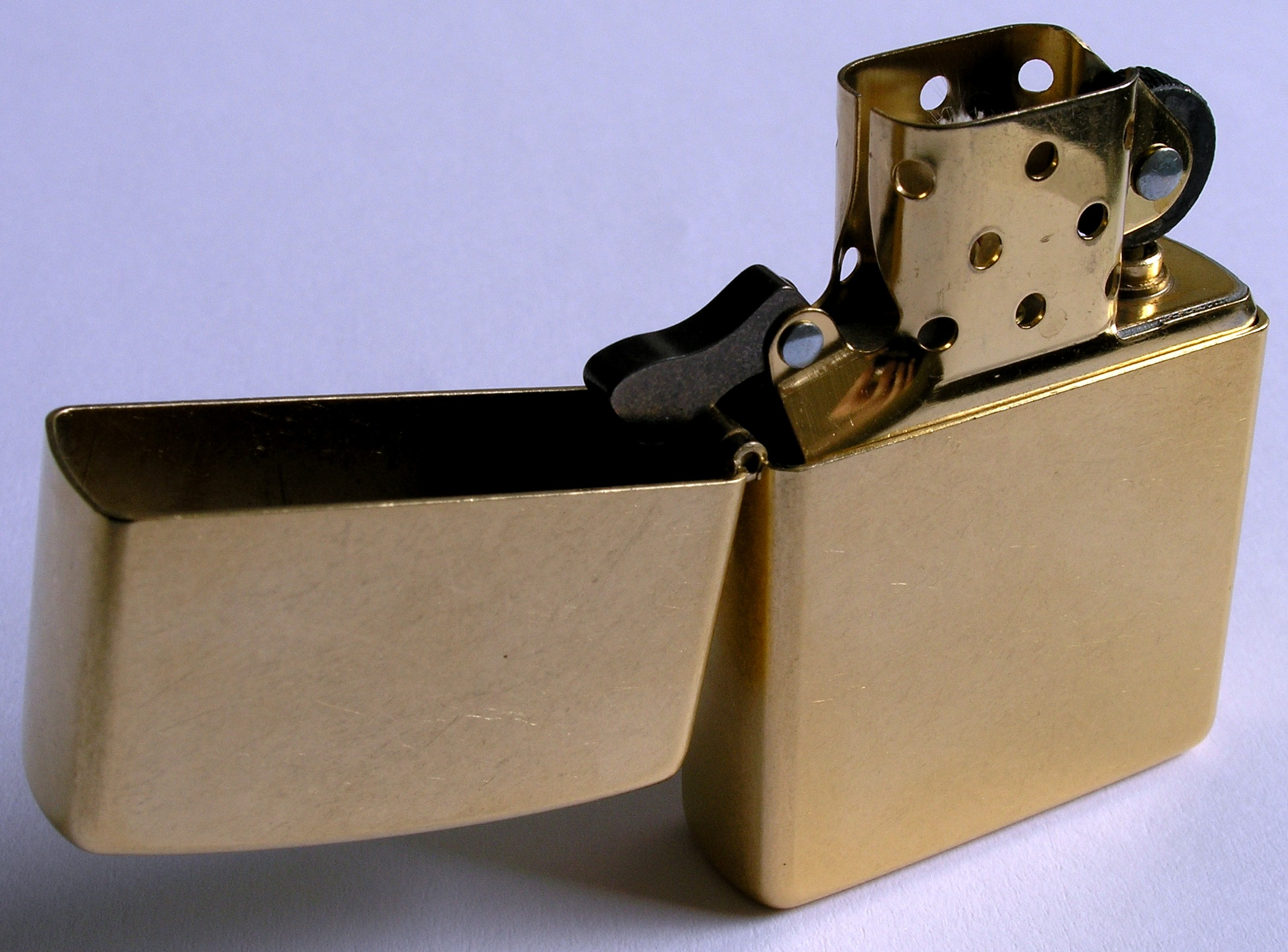 A Zippo lighter of design "Gold Dust" with the brass-look insert for brass-based case designs. Manufactured: case=March 2007, insert=February 2007. Photographed in unused condition.